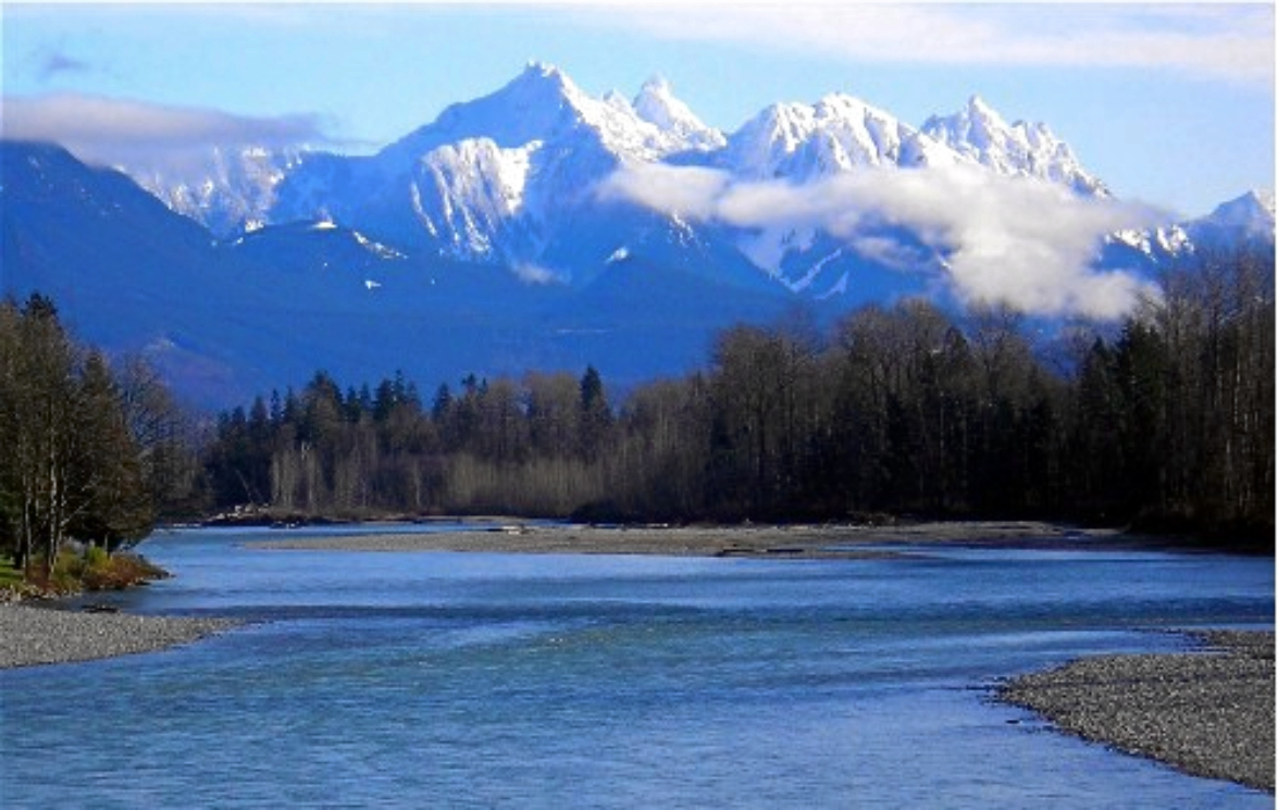 Skykomish River seen with peaks of the Wild Sky Wilderness in Washington state.